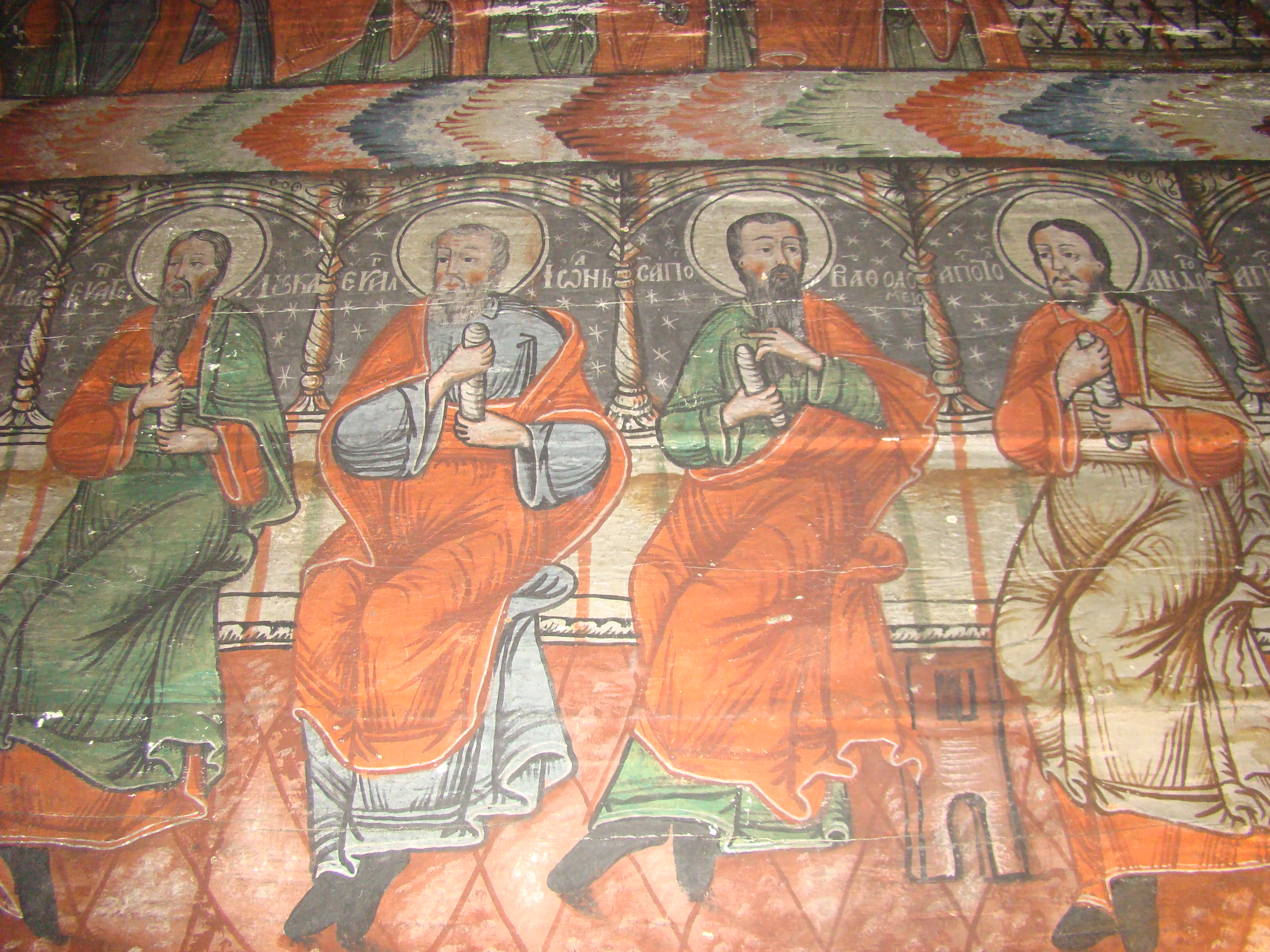 Wooden church in Bica, Cluj countyRomână: Iconostas, detaliu. Biserica de lemn din Bica, județul Cluj